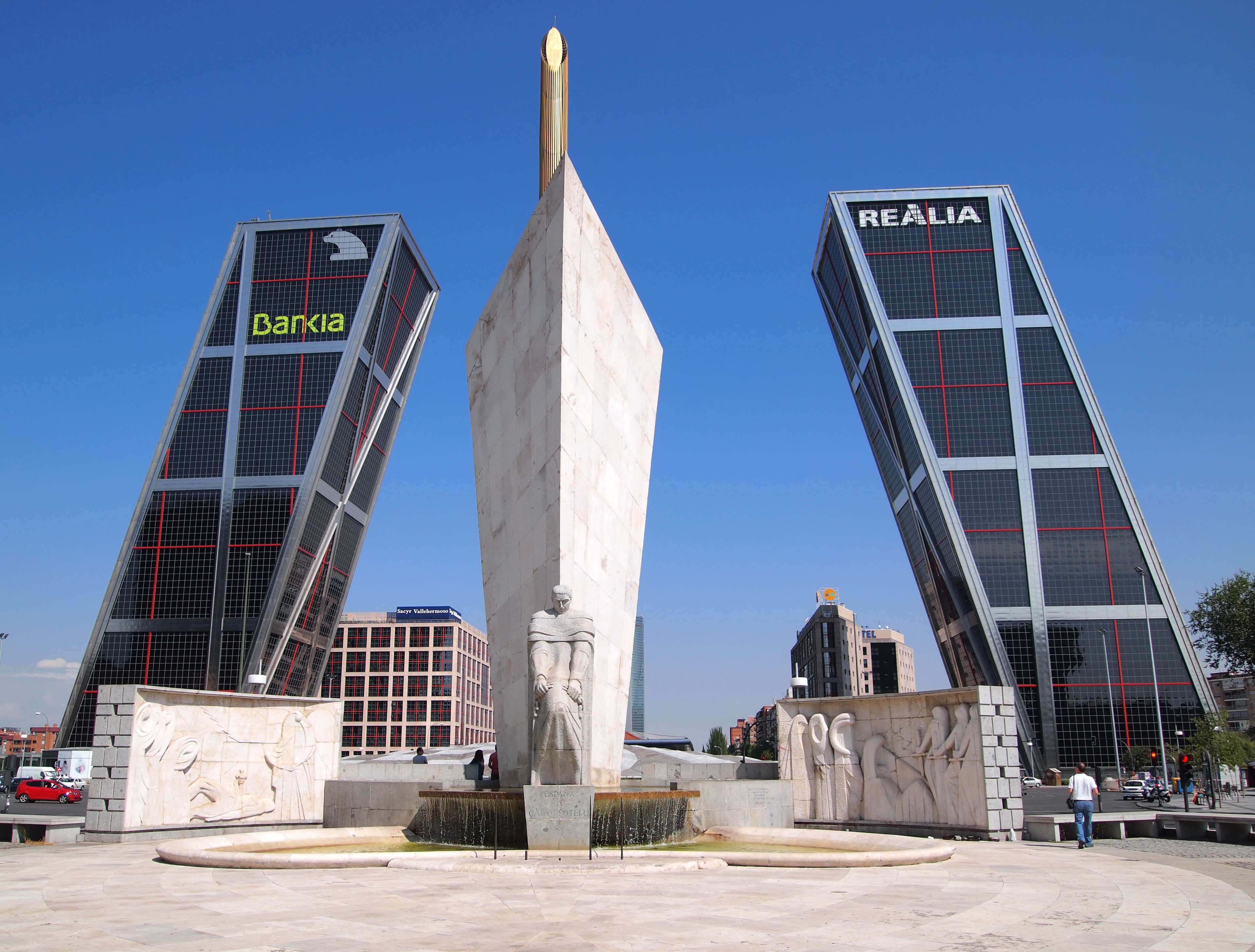 Puerta de Europa office buildings in Madrid. This photograph was taken with an Olympus E-PL1